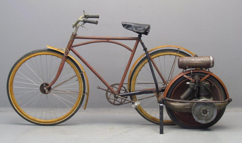 Briggs & Stratton Motorwheel and Iver-Johnson Bicycle